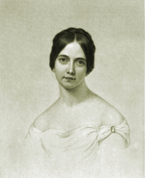 Engraving of American poet Frances Sargent Locke Osgood (aka "Fanny" Osgood), from her posthumous book Poems (1850), published by Carey & Hart, Philadelphia.